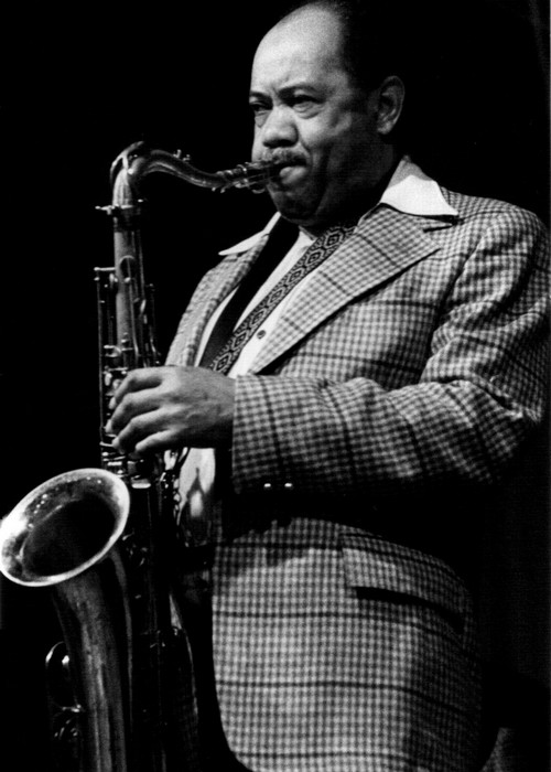 American jazz tenor saxophonist David "Bubba" Brooks in France